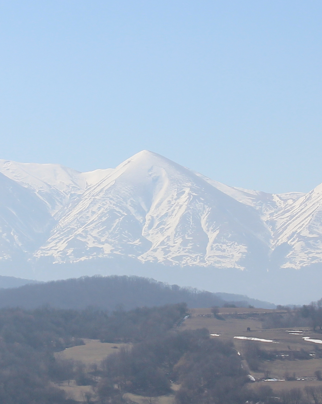 Mount Kazbek in the district of Dagestan